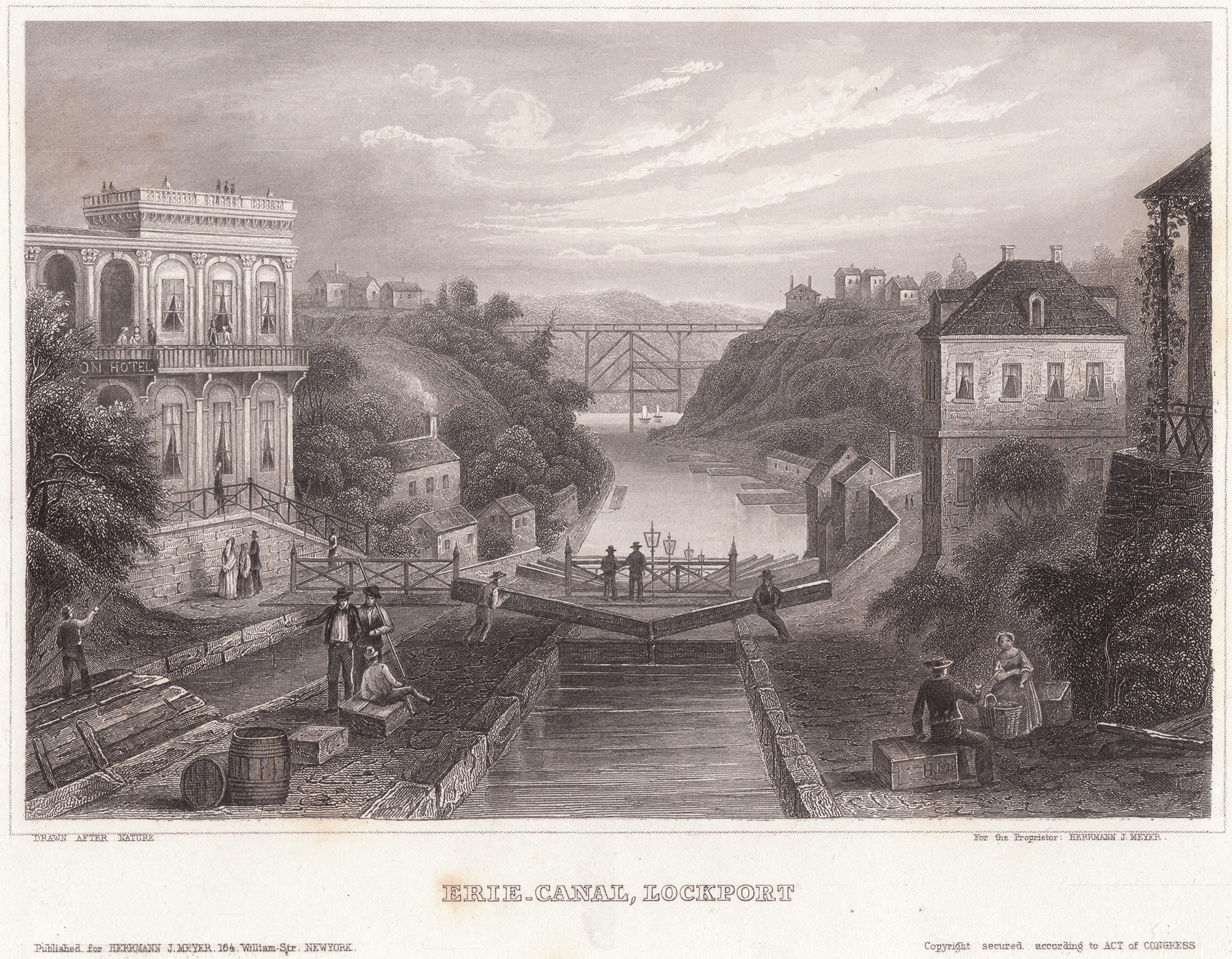 Lithograph of the Erie Canal at Lockport, New York c.1855. Published for Herrman J. Meyer, 164 William Street, New York City.